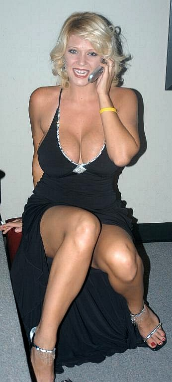 Charlee Chase at Tampa Show 2005